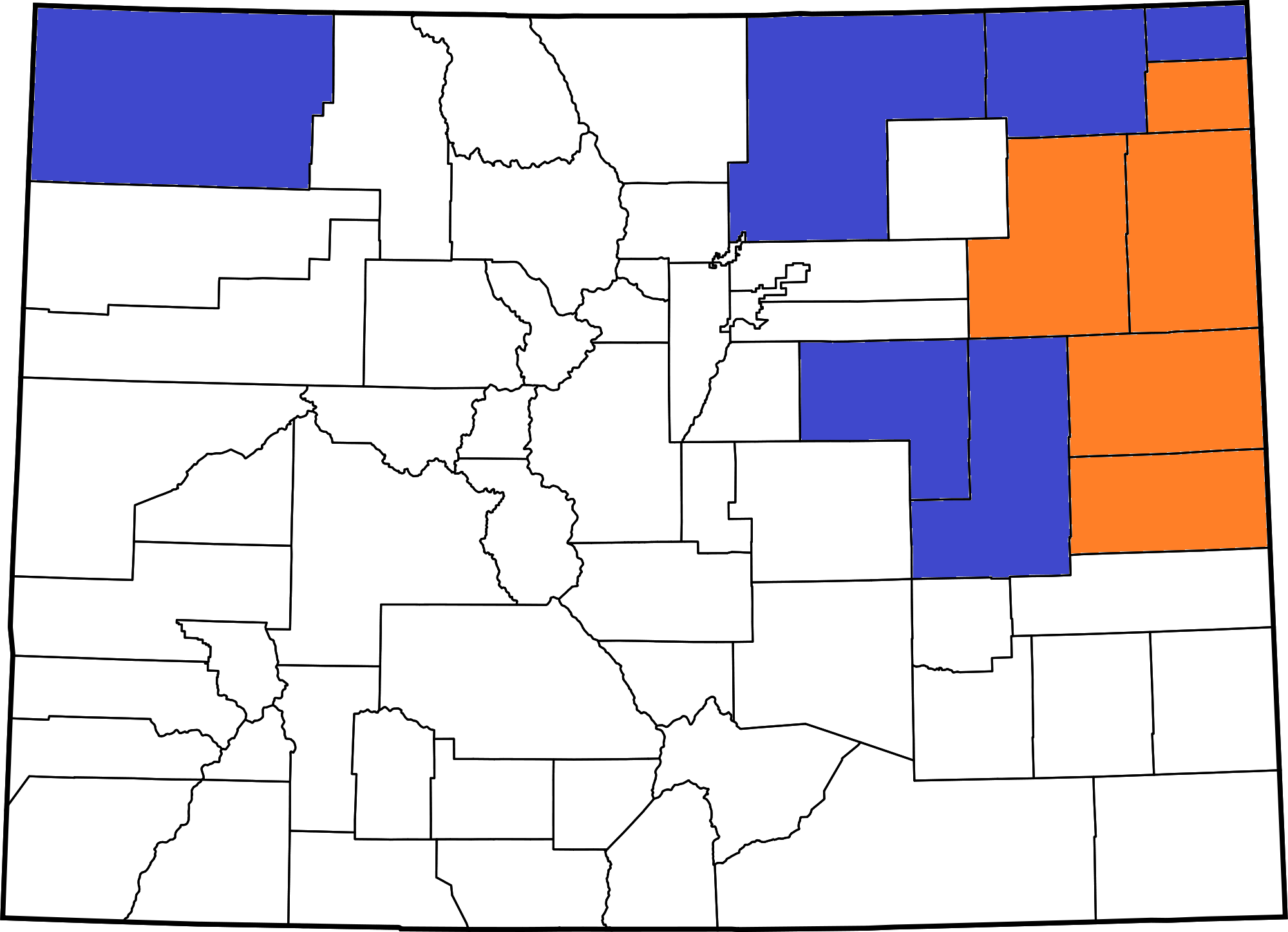 Map showing election results of 2013 secession movement in Colorado. Counties shown in orange voted in favor of secession; counties shown in blue voted against.